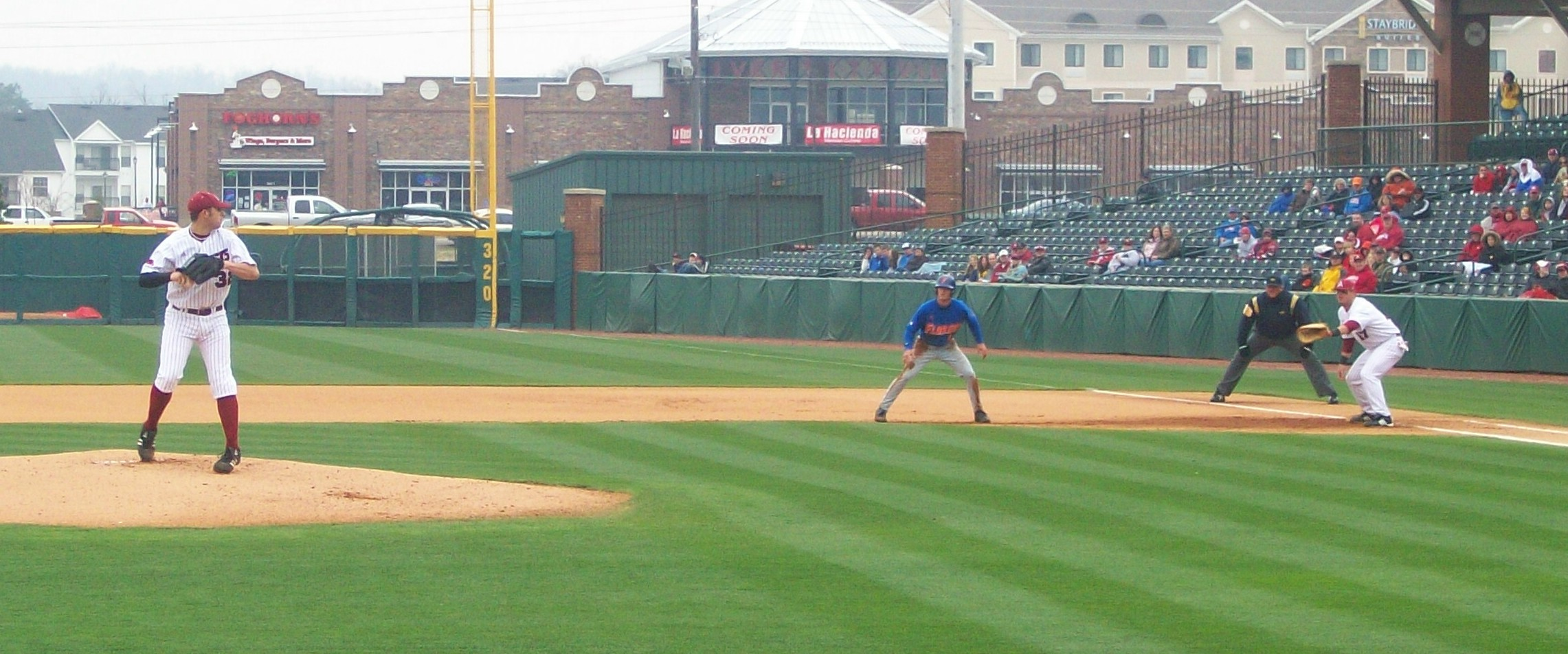 Arkansas pitcher Mark Bolsinger throws to 1B Andy Wilkins to pick off Avery Barnes of Florida.